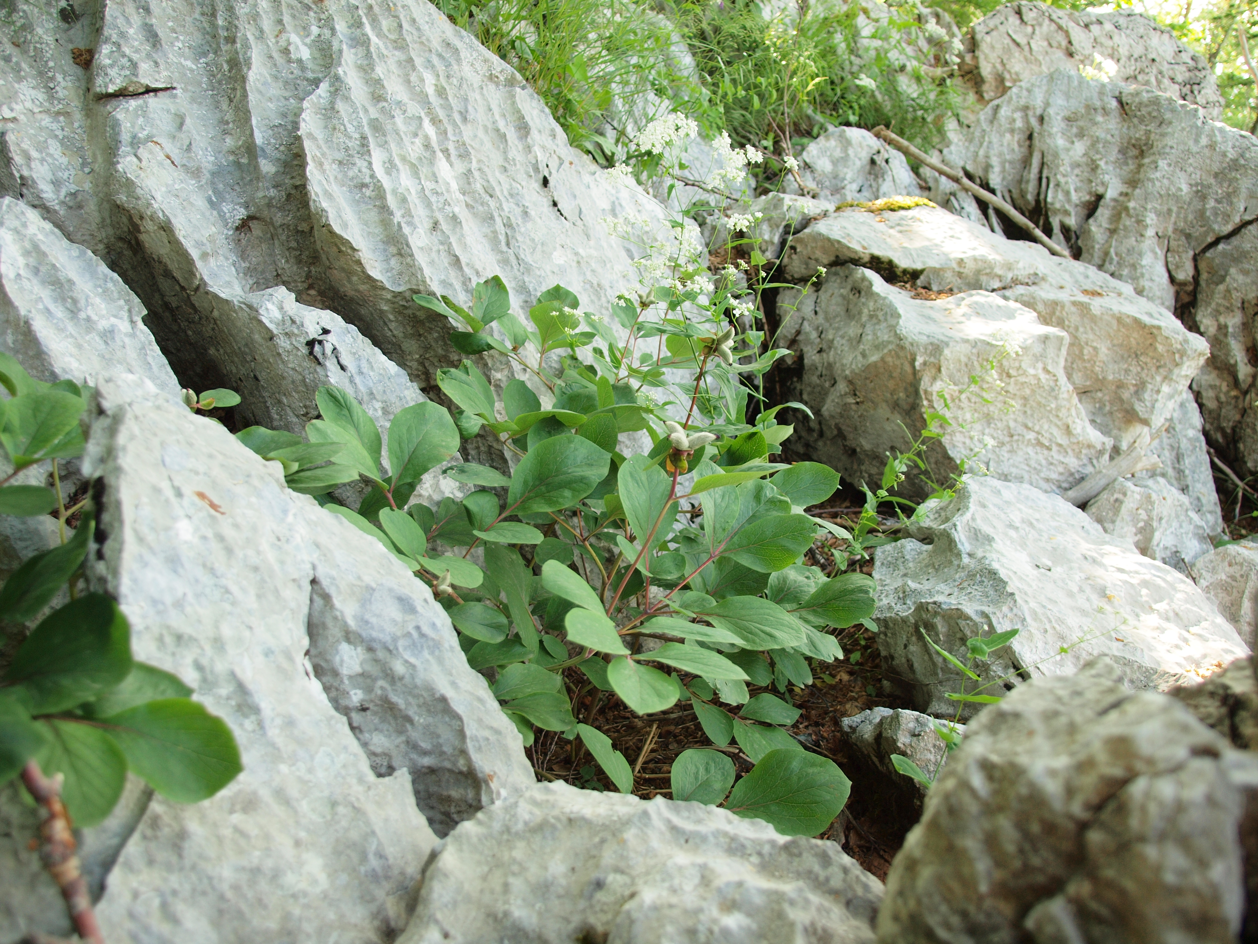 Paeonia daurica ssp. daurica from wild population. Mt. Orjen 1450 m, Montenegro